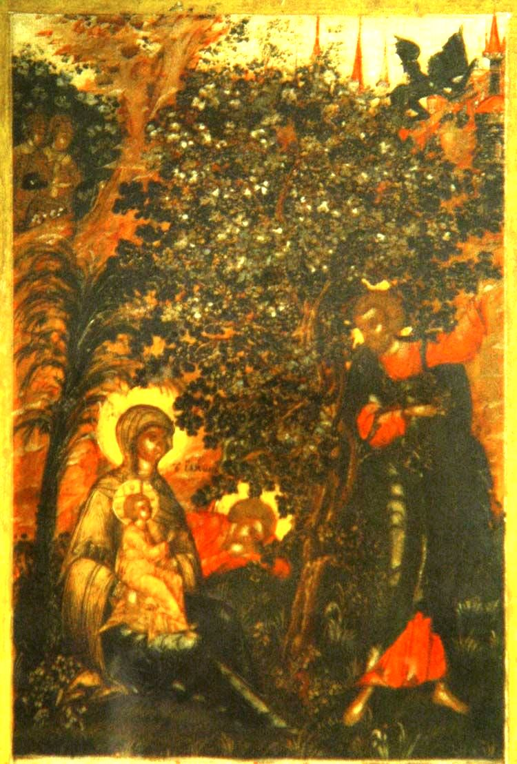 Flight into Egypt (Palekh icon)